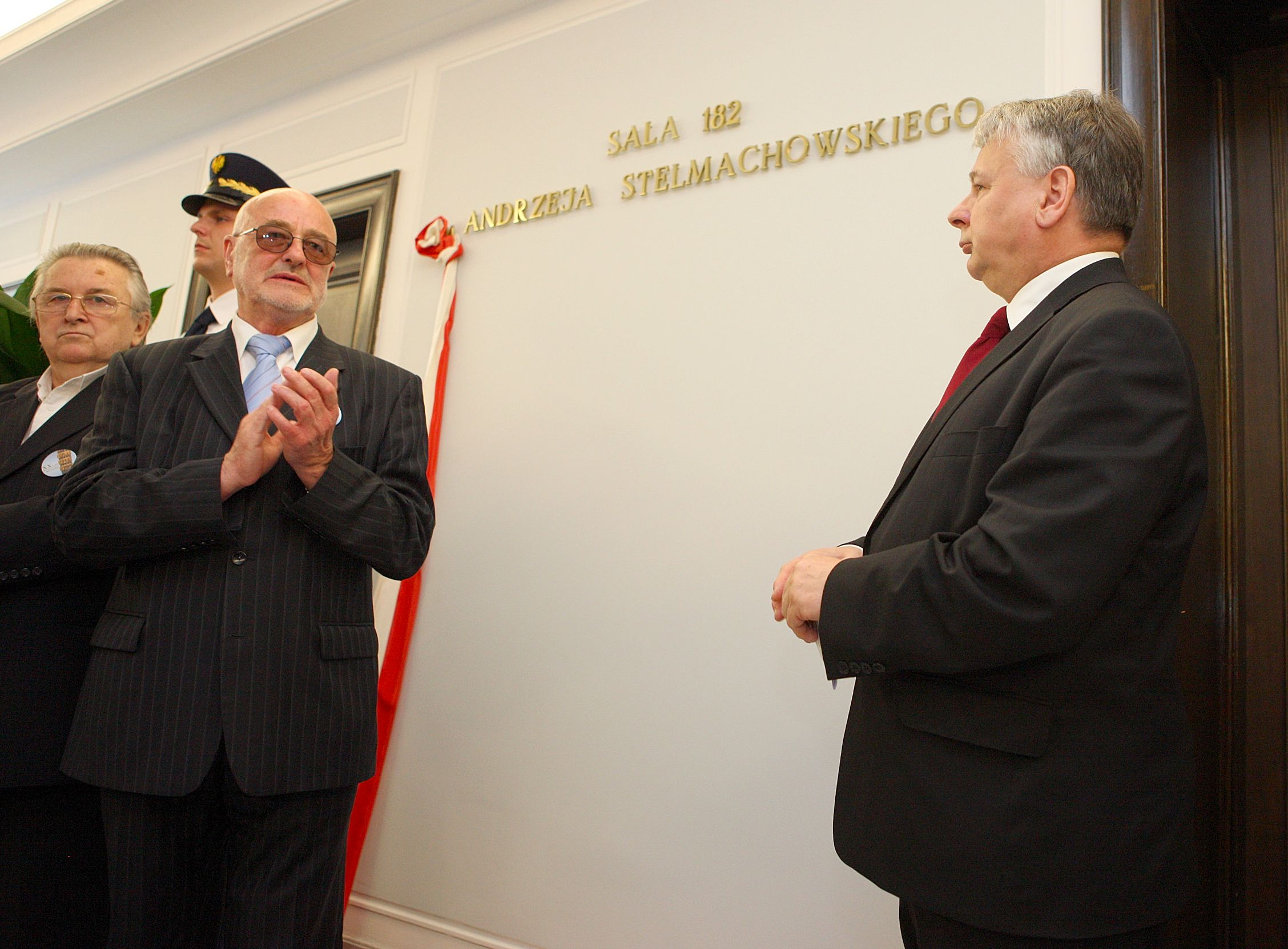 20th anniversary of re-establishment of the Polish Senate. Ceremony of naming hall no 176 after Zbigniew Andrzej Stelmachowski